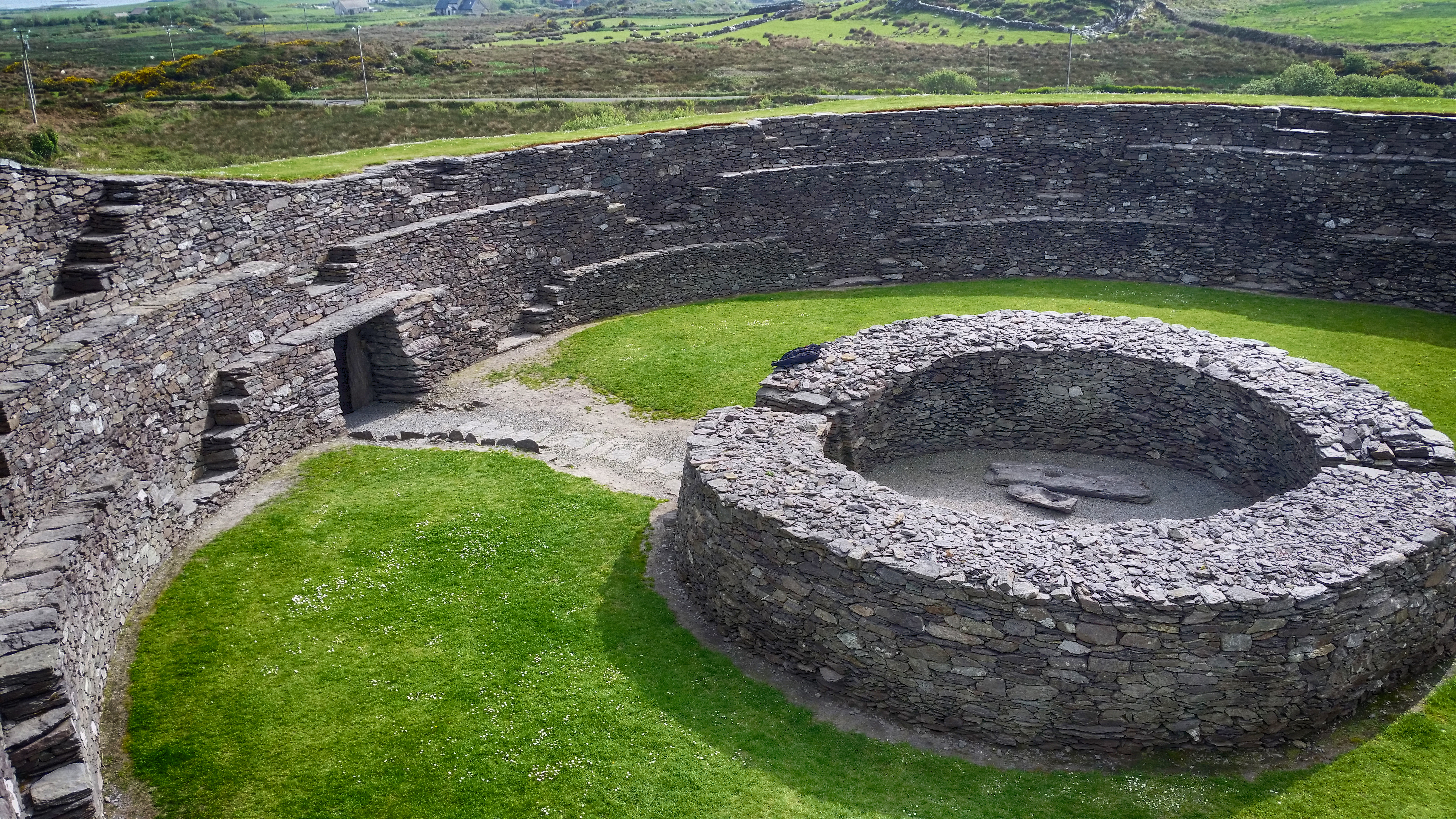 Ballycarbery East, Co. Kerry, Ireland Cahergall